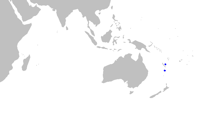 Distribution map for Etmopterus caudistigmus